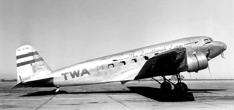 TWA DC-2 (NC-13784) at San Francisco in June 1939.